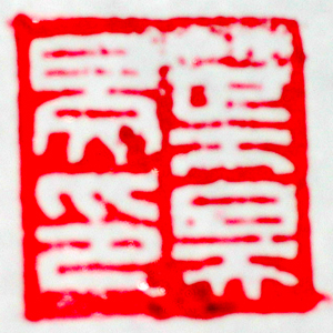 A Baiwen name seal, read up-down-right-left: 葉昊旻印 (pinyin: Yè Hàomín yìn, lit. "Seal of Yè Hàomín")